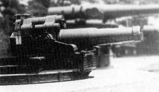 A Type 7 30-cm-howitzer, short barrel, of the Imperial Japanese Army